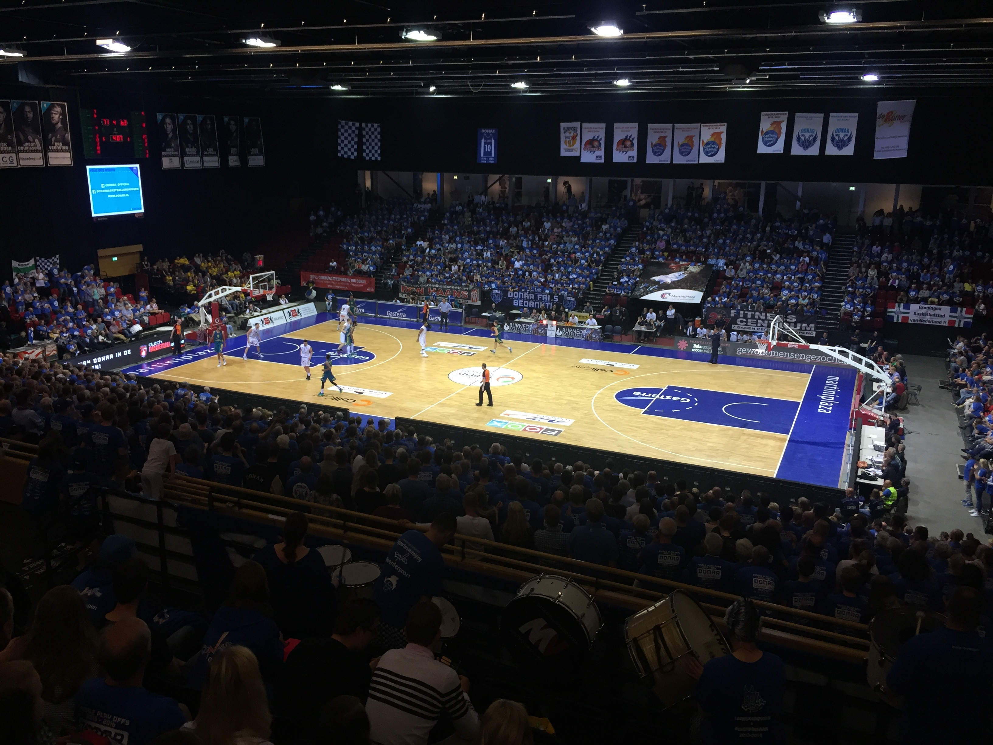 Donar Groningen playing against Landstede Basketbal in the 2016 Finals.